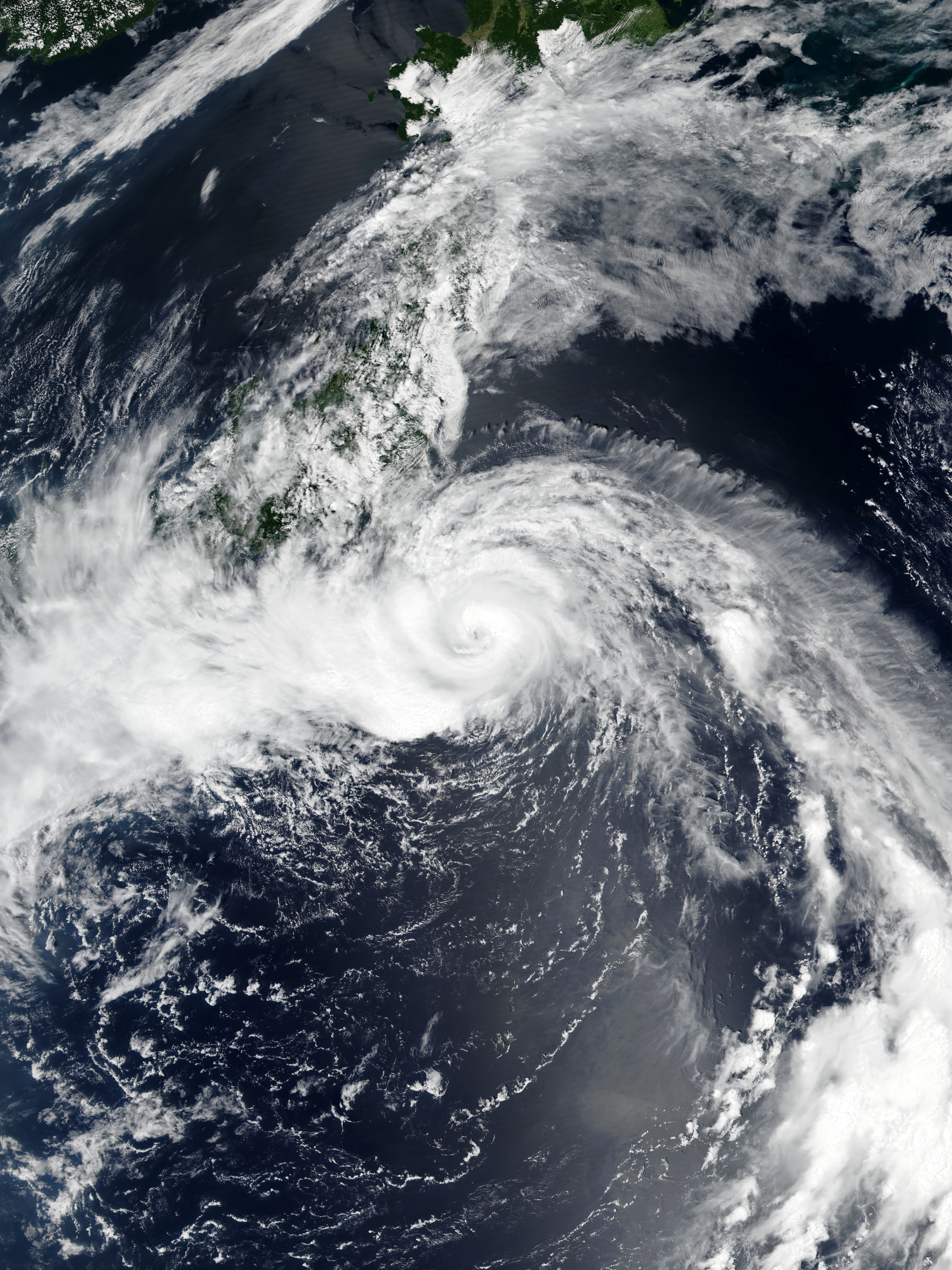 Typhoon Jongdari approaching the Tōkai region of Japan on July 28, 2018, shortly after peak intensity.